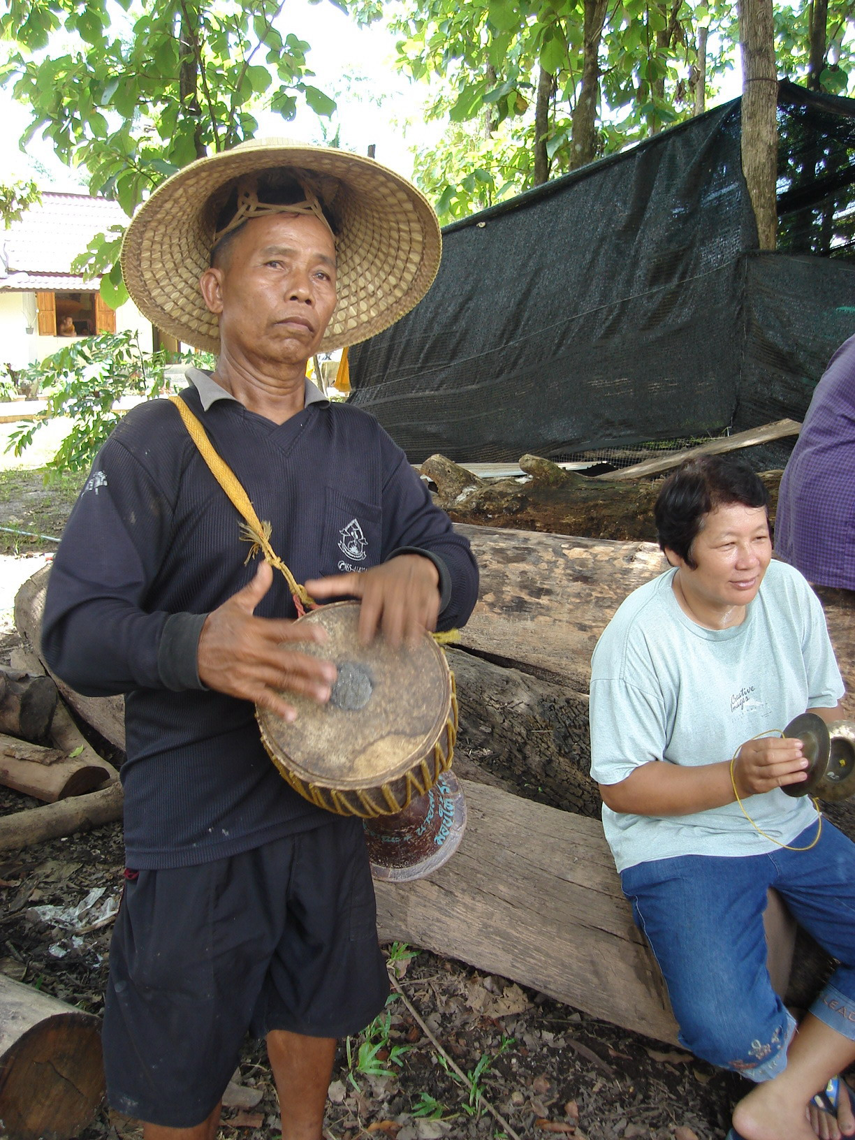 กลองยาว Thai plays the drum long celebrate